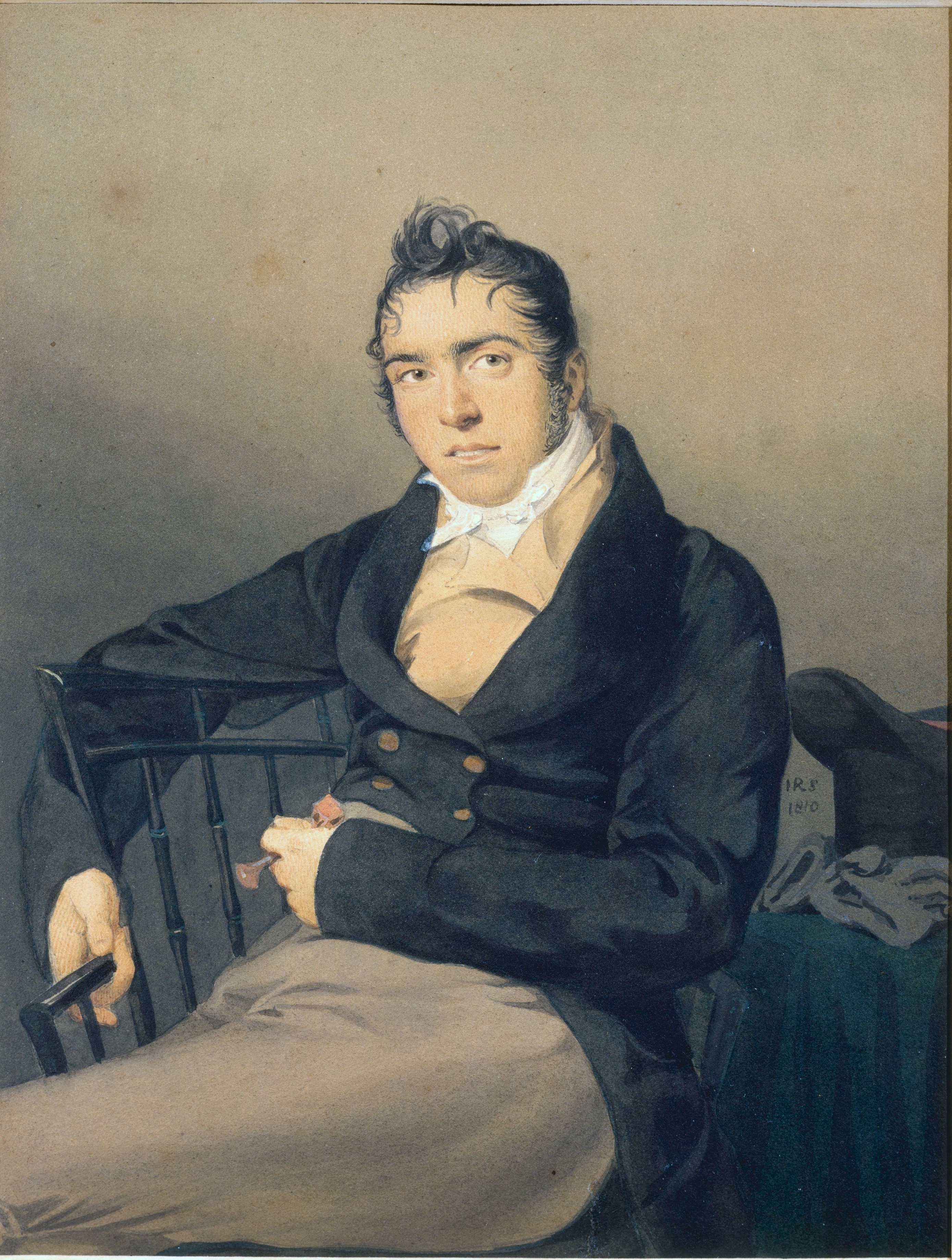 Watercolor; Drawings